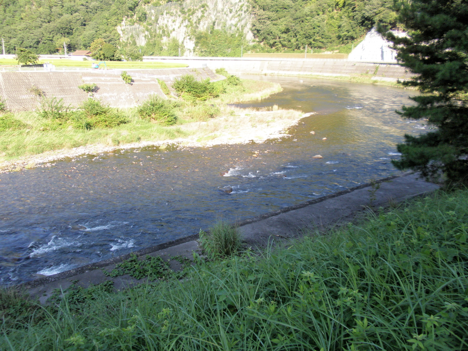 Nariwa River, Takahashi, Okayama.